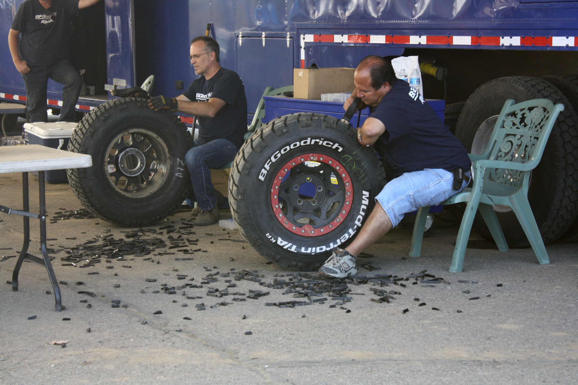 Crew members cutting grooves ("grooving") tires before the off-road racing world championships at Crandon International Off-Road Raceway